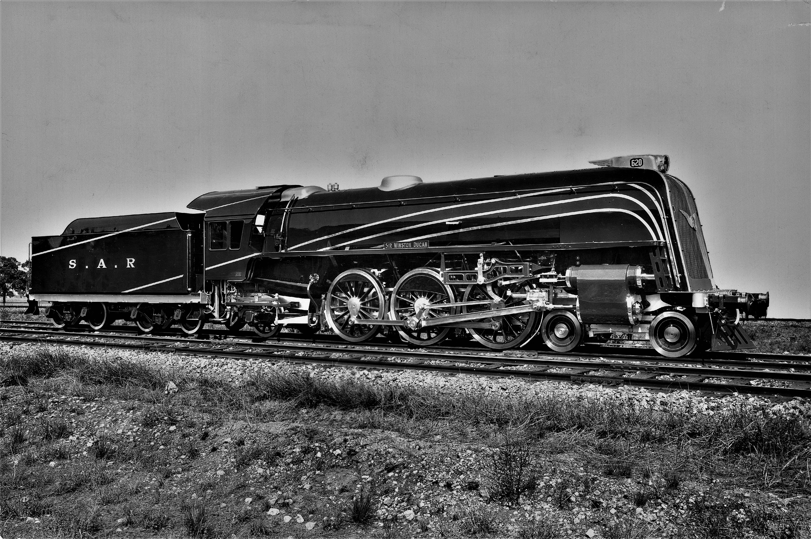 South Australian Railways 620 Class Locomotive No. 620 "Sir Winston Dugan". 1936. State Library of South Australia B 7264.